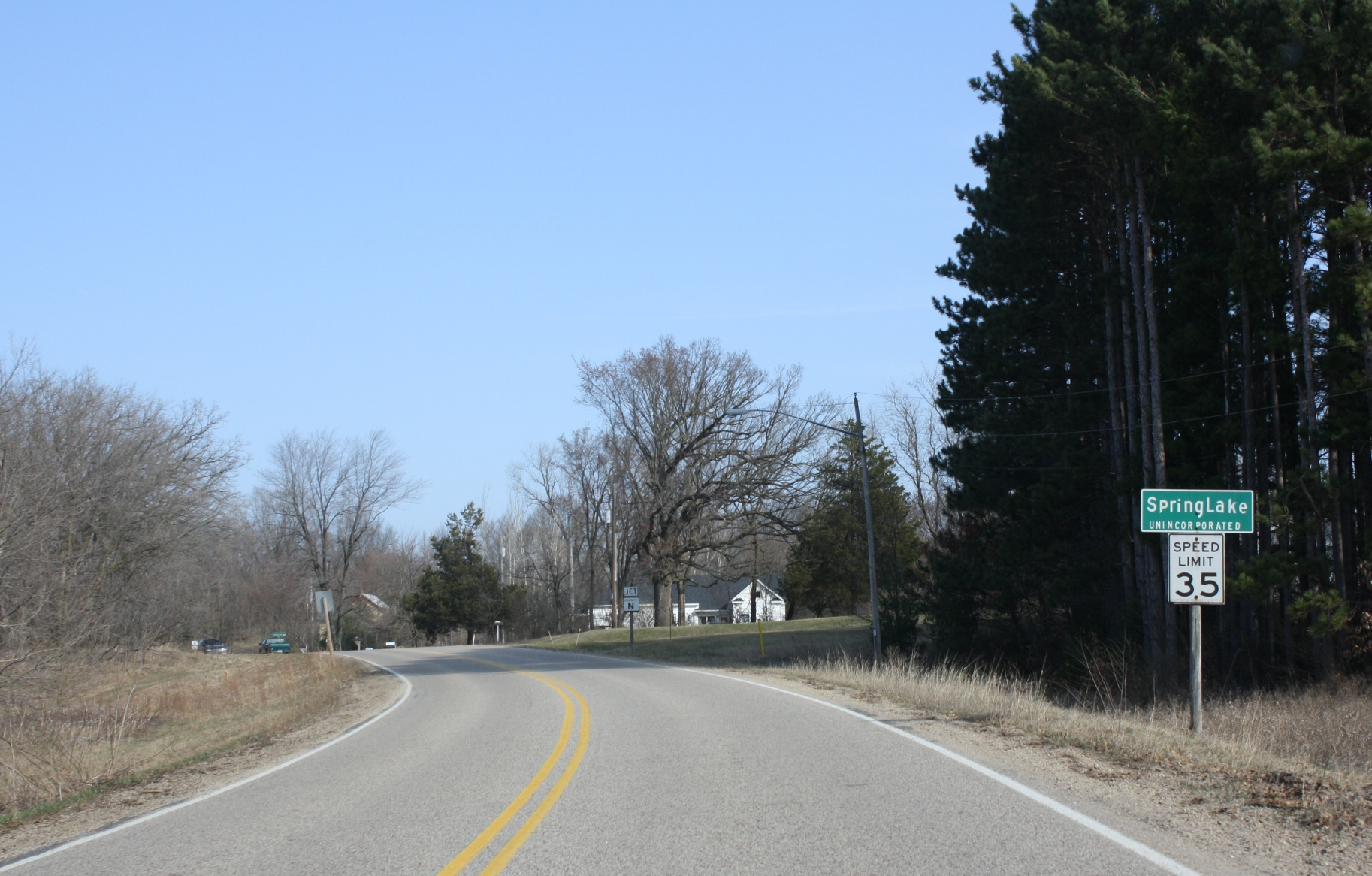 The sign for Spring Lake, Waushara County, Wisconsin.